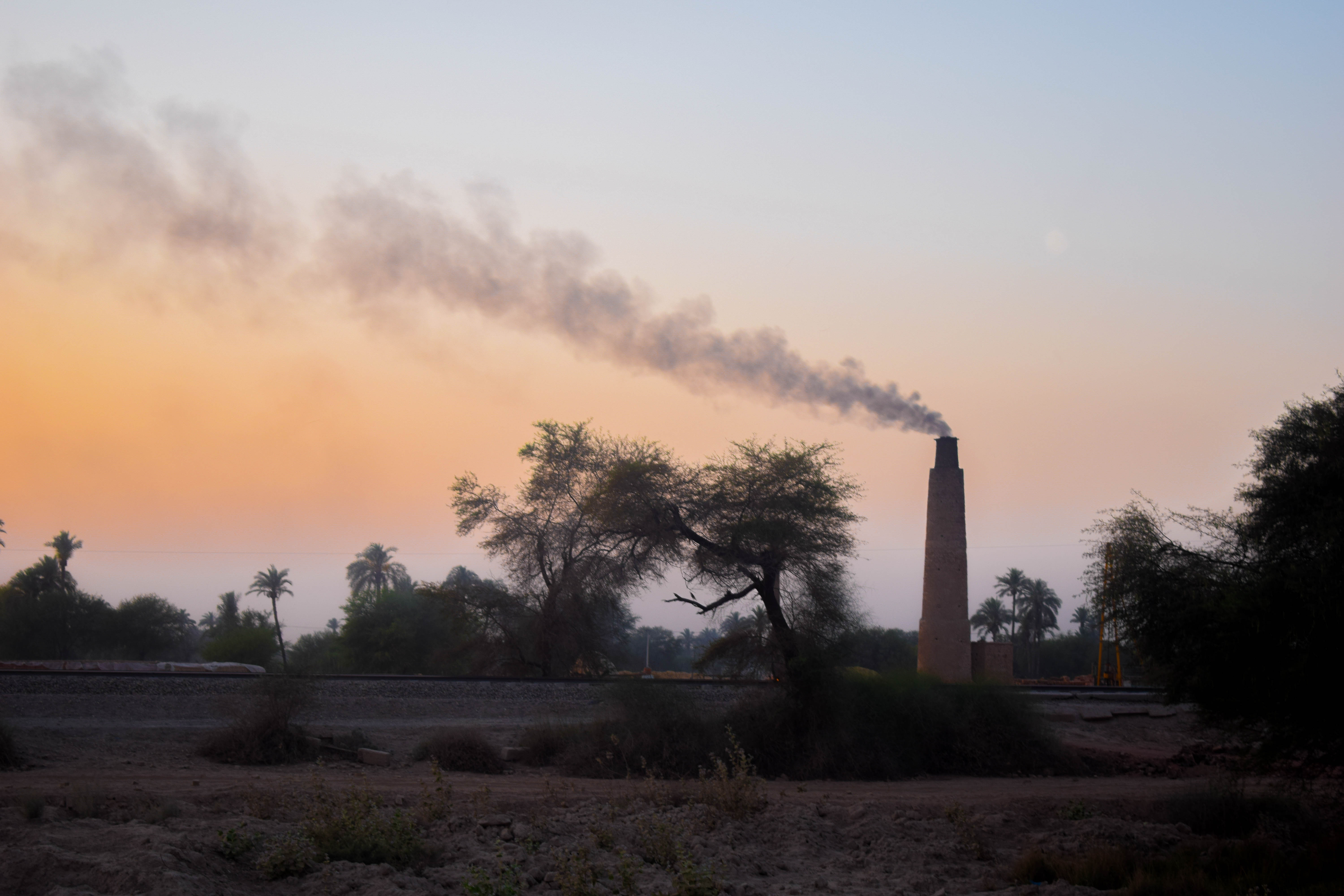 Bricks of soft mud are put in this unit and fire is lit to make the bricks hard and use for construction purposes. This tower is called "Bhattha" in local language.